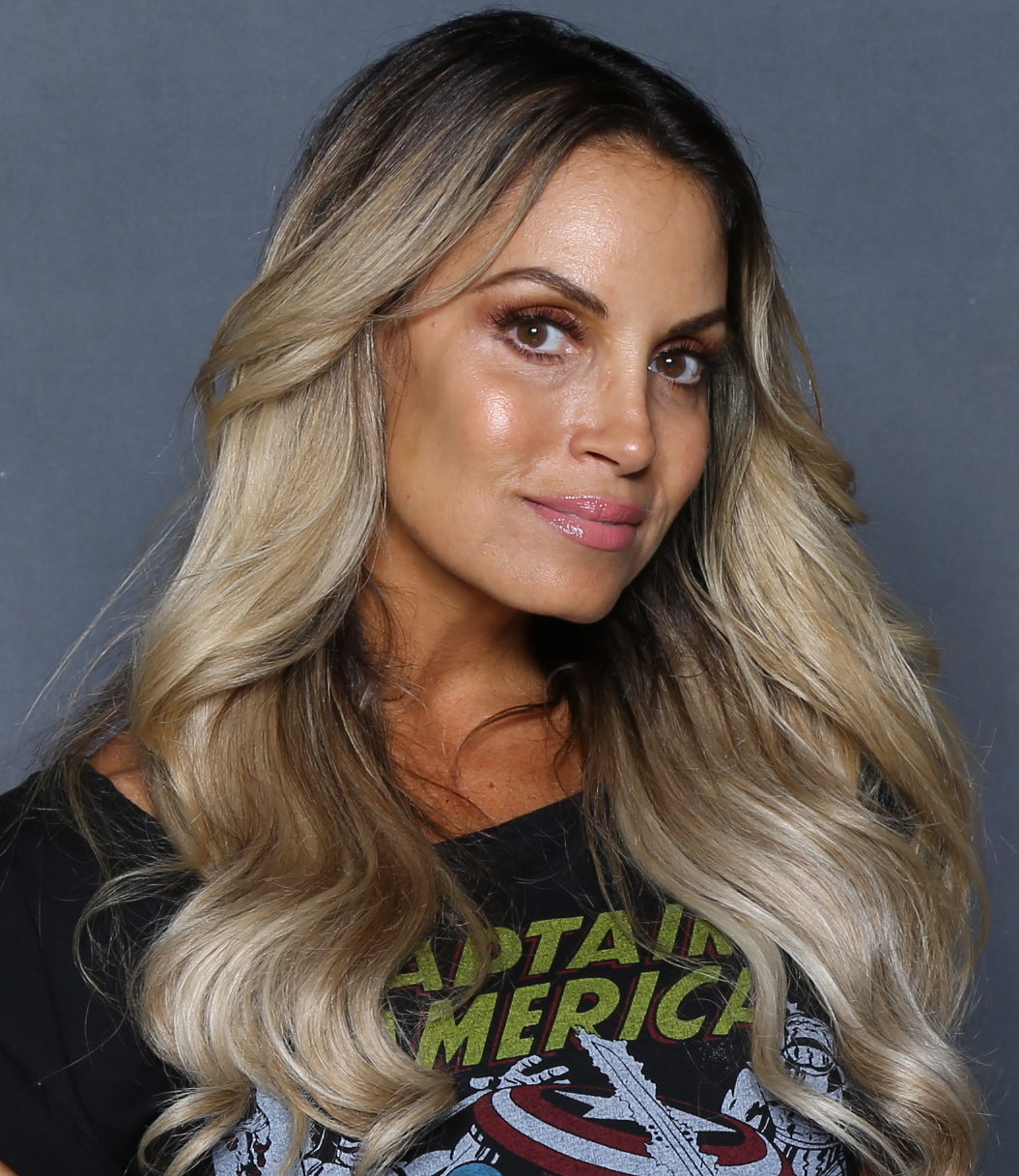 Stratus at the 2018 Raleigh Supercon